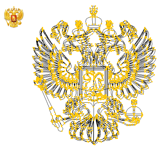 KremlinRussia Userpic Юзерпик KremlinRussia